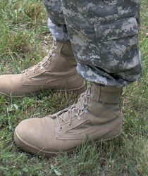 credited to the US Army.